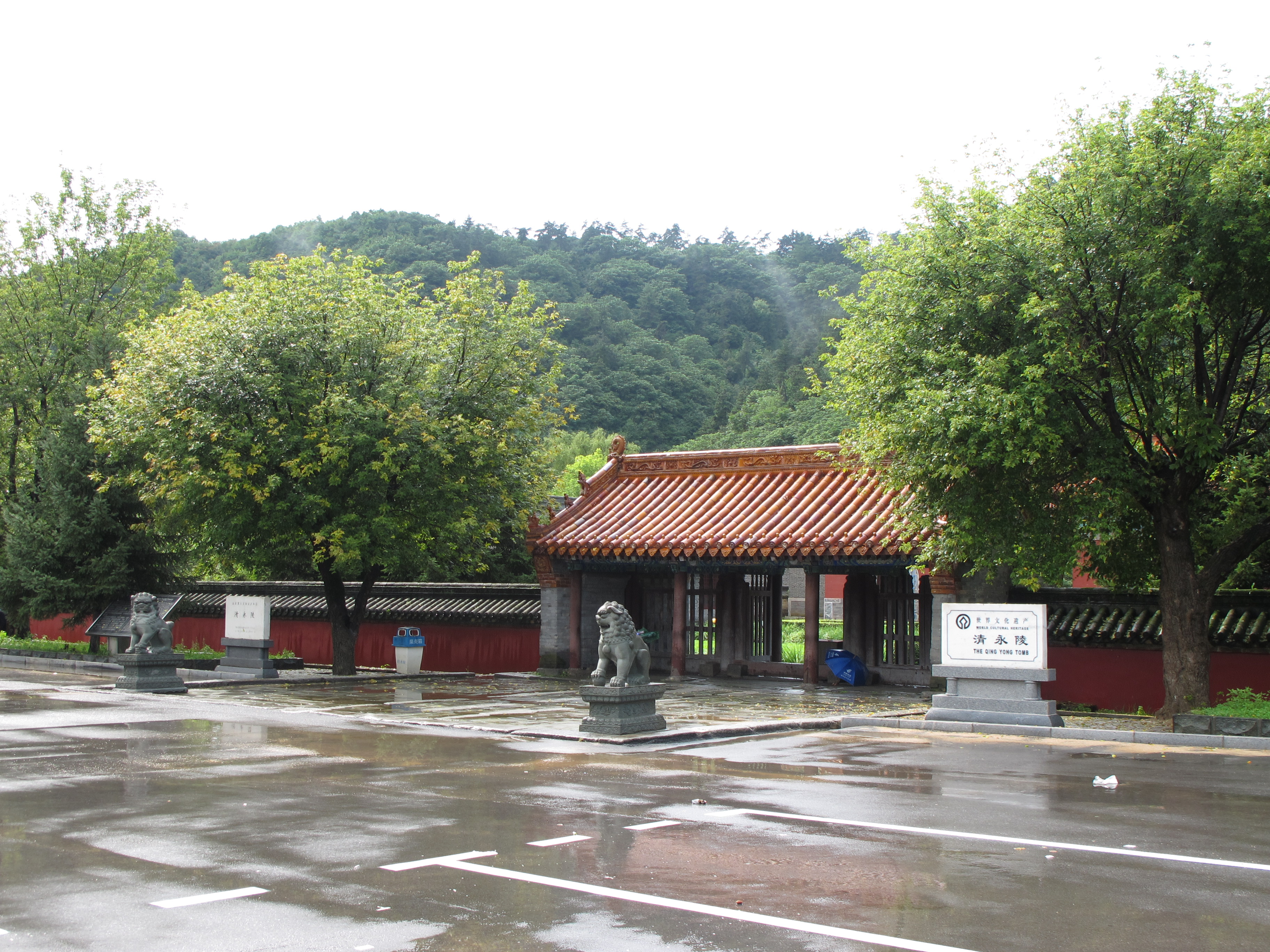 Yongling Tomb of Qing Dynasty